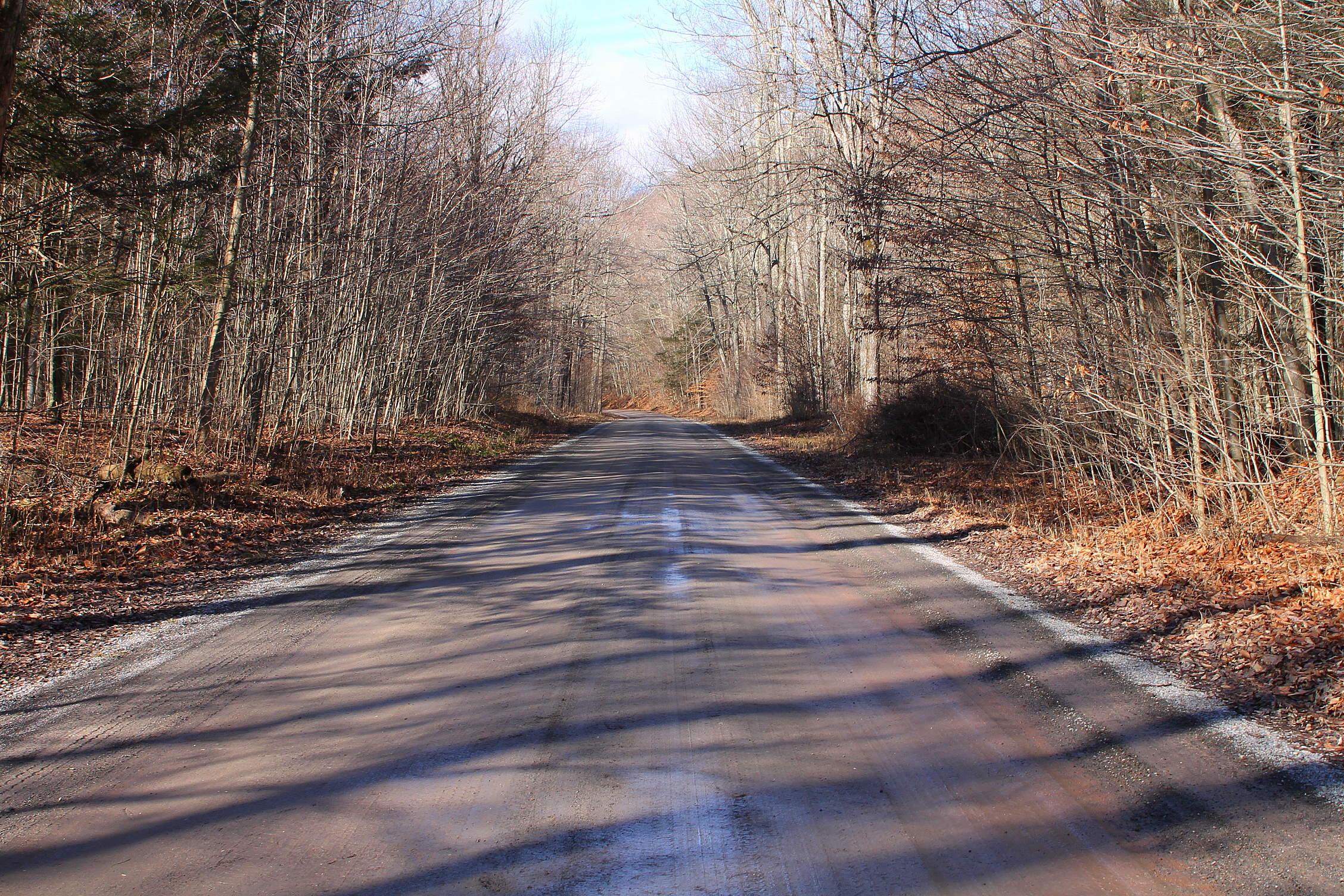 State Route 2003 in Pennsylvania State Game Lands Number 13